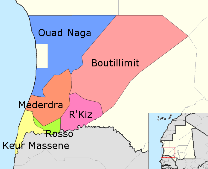 Using GIMP I added new, bigger department labels to User:Rarelibra's original map: Image:Trarza_departments.png. - User:McTrixie